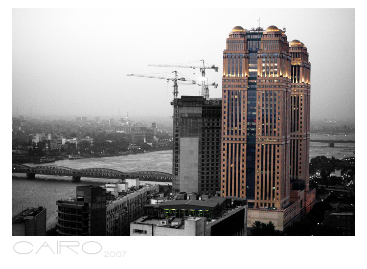 morning